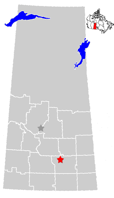 Location of Regina, Saskatchewan